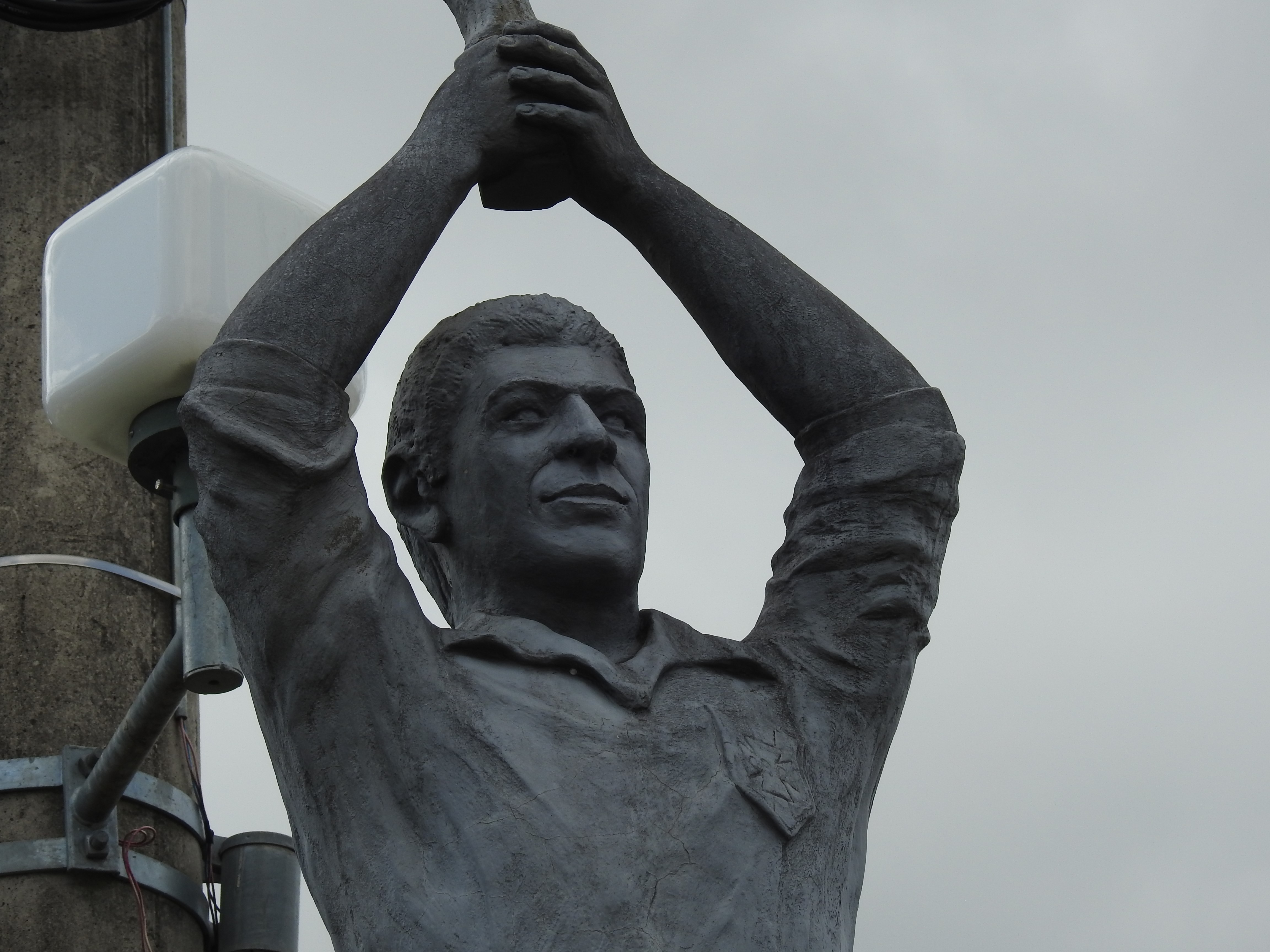 Poços de Caldas is a municipality in southwestern Minas Gerais state, Brazil, in the microregion of the same name. Its estimated population in 2009 was 151,449 inhabitants. The city has hot springs.